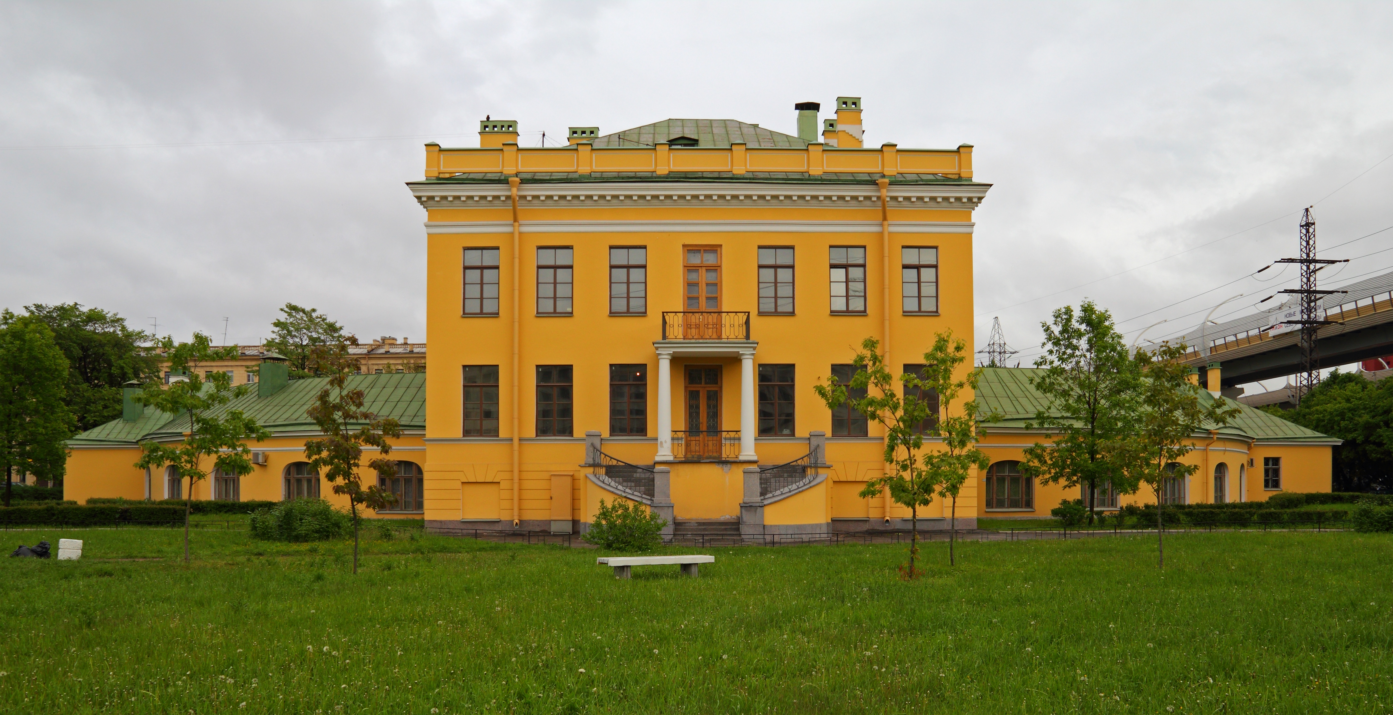 Saint Petersburg, Russia. Kirianovo Palace.